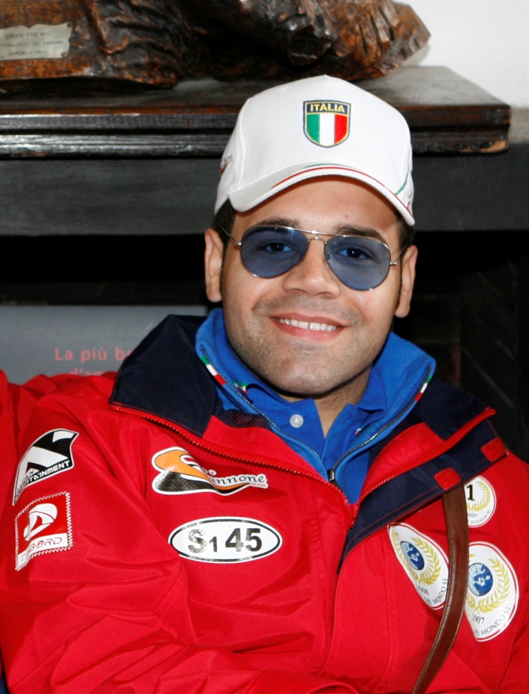 World Championship 2009